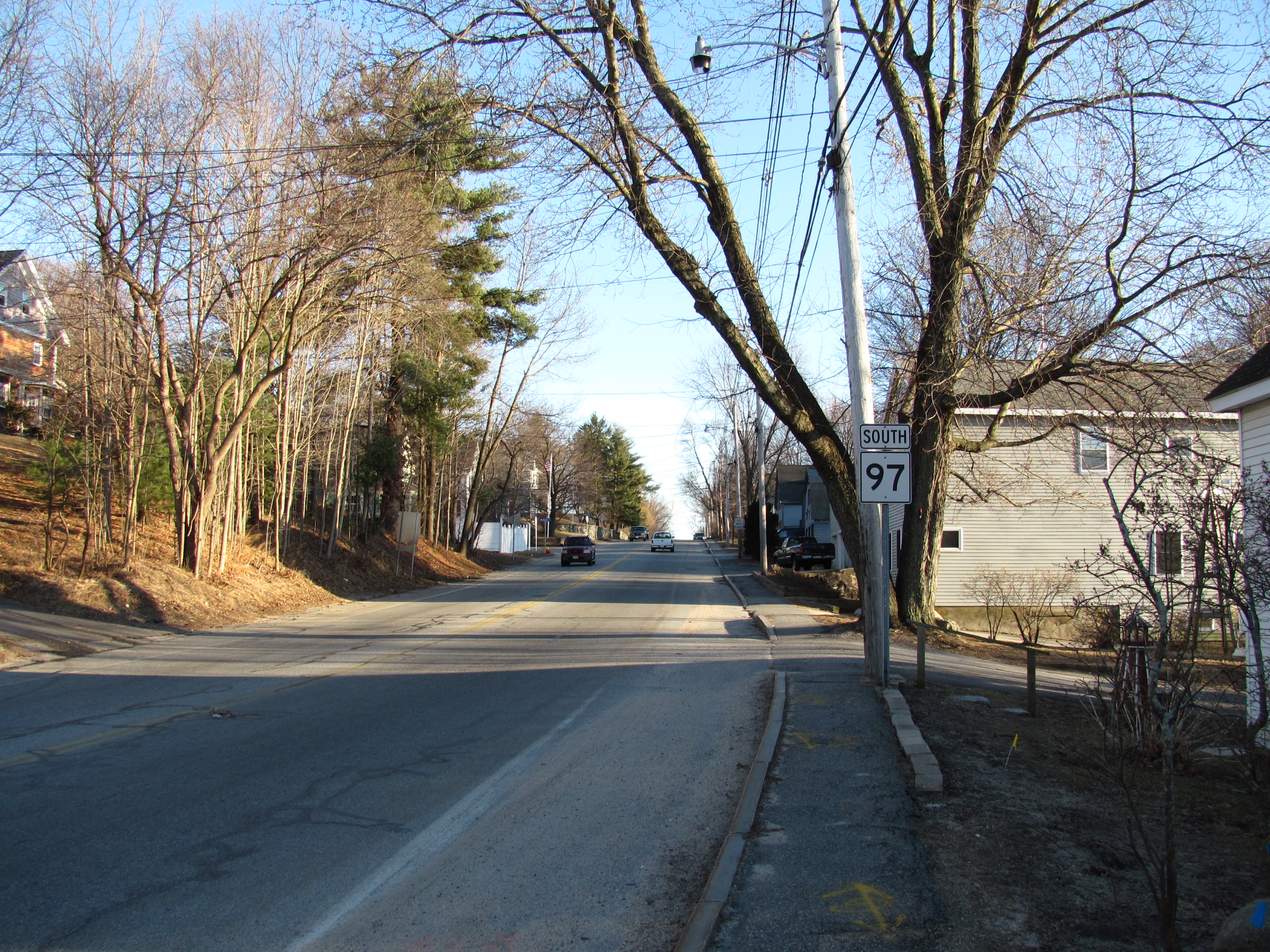 Looking southeast on MA Route 97, Groveland Massachusetts